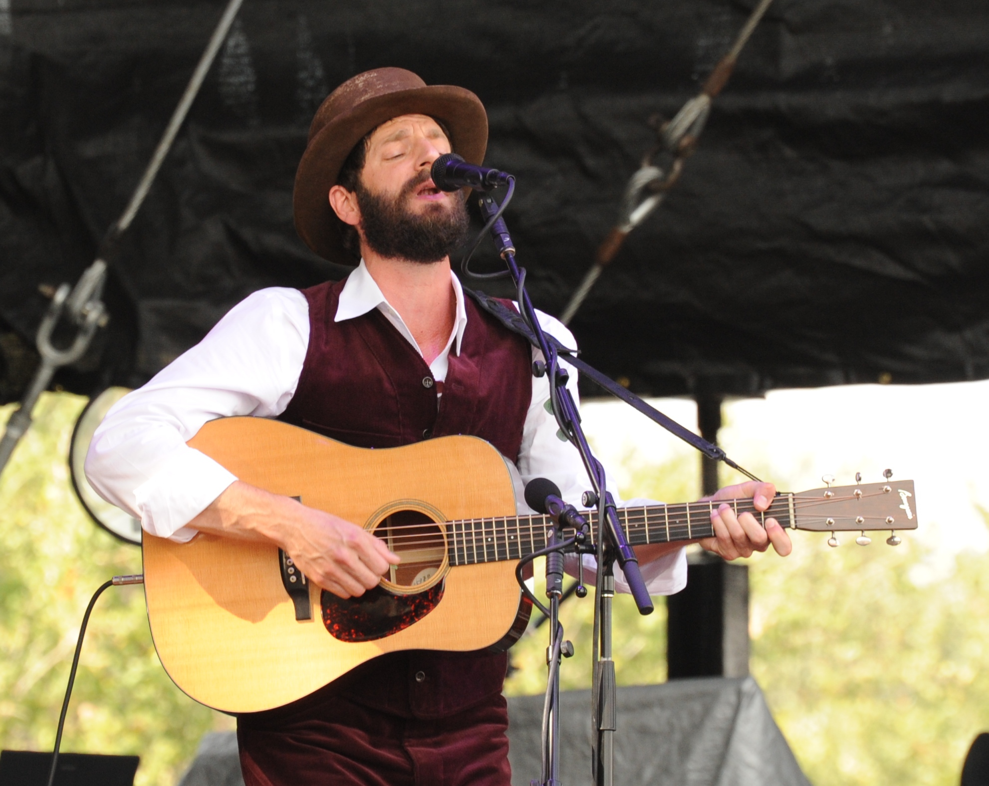 Ray LaMontagne, playing at the Austin City Limits Music Festival in Austin, Texas Sept. 16, 2011.